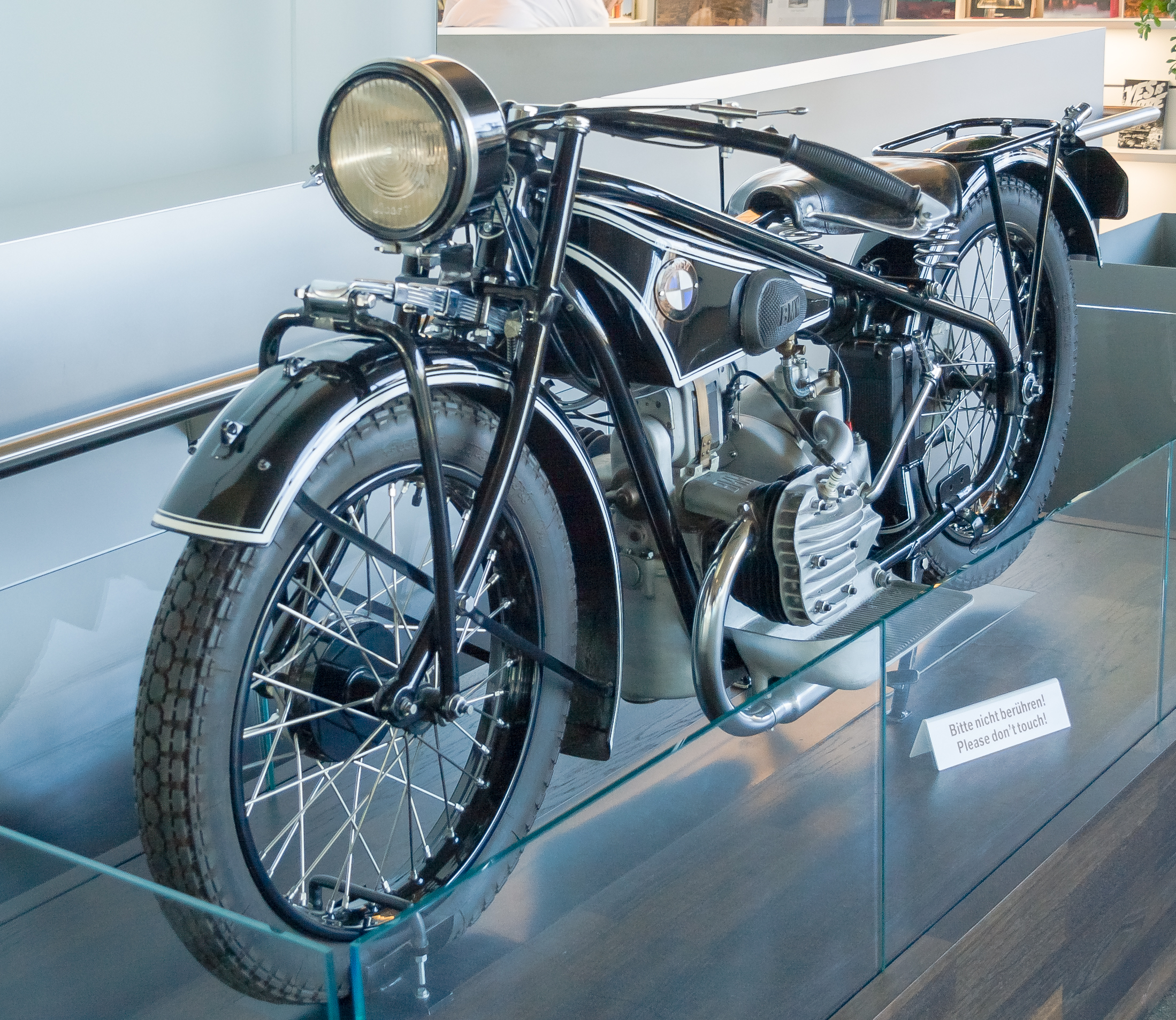 BMW R32, BMW Welt, Munich, Germany